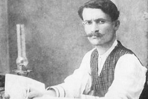 Hasan Tahsin also known as Osman Nevres (1888-1919)